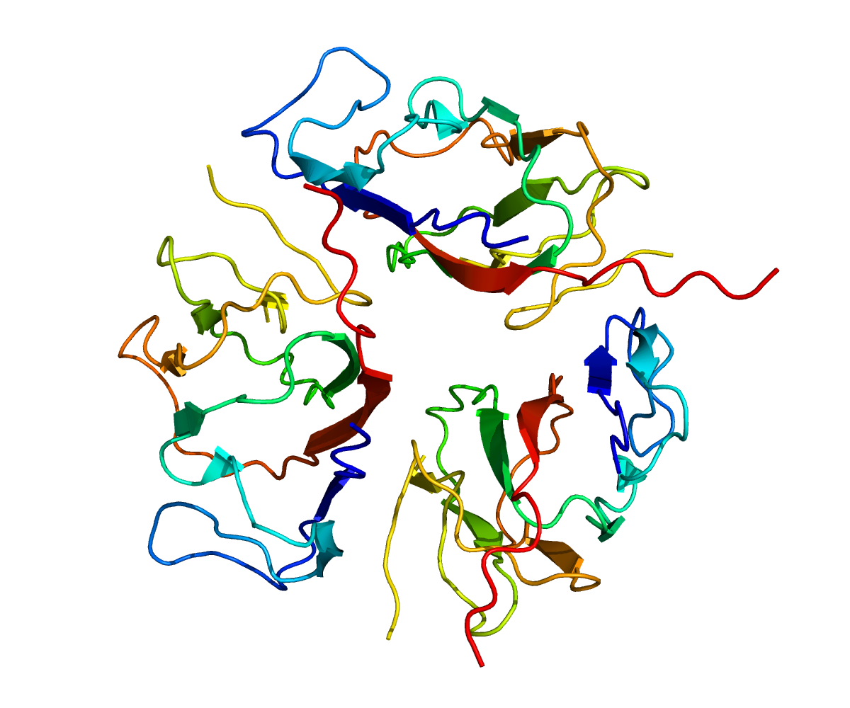 Structure of protein EMILIN1.Based on PyMOL rendering of PDB 2KA3.